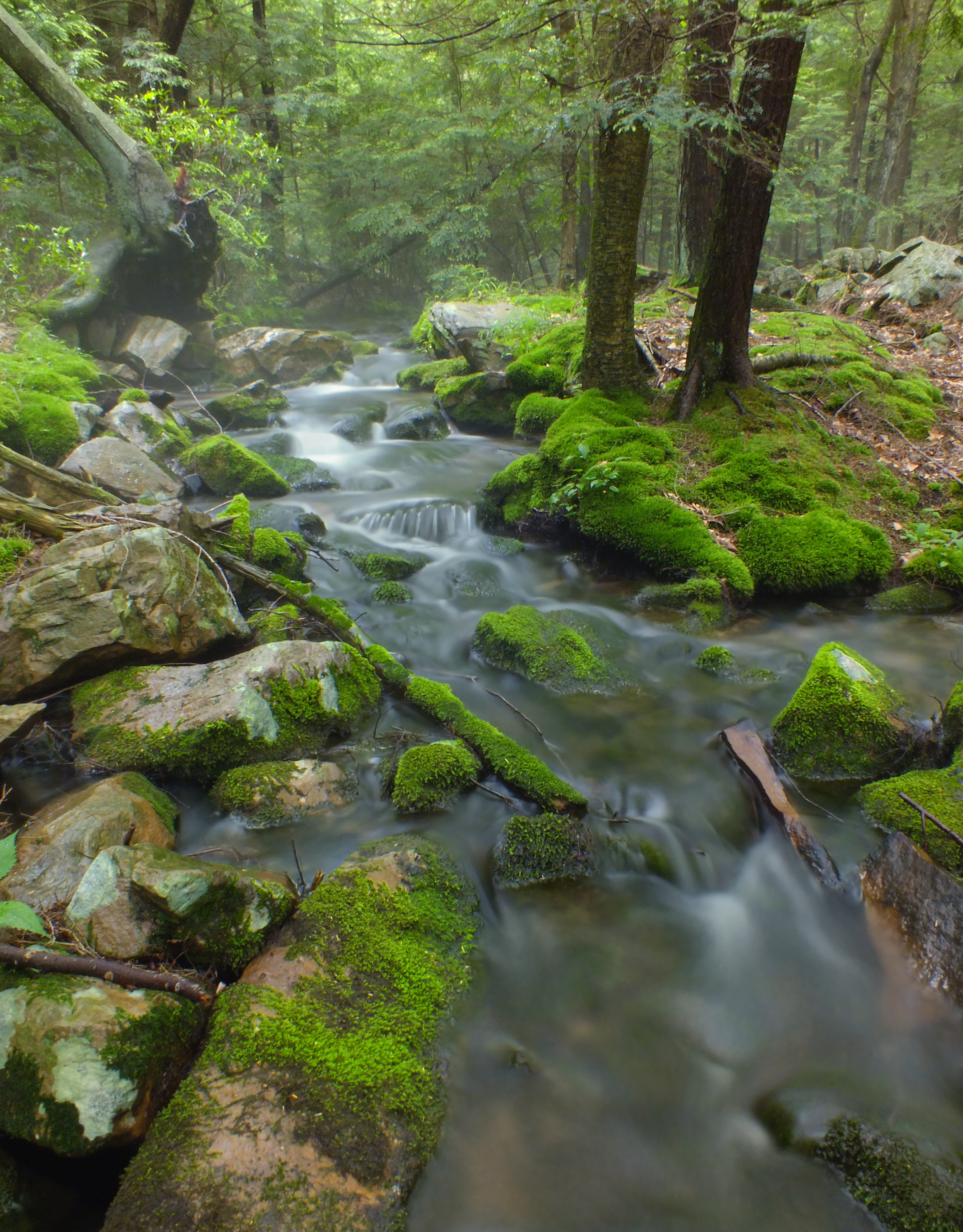 Panther Run, Union County, within the Hook Natural Area of Bald Eagle State Forest. The natural area protects 5100-plus acres of mountainous, heavily forested land.